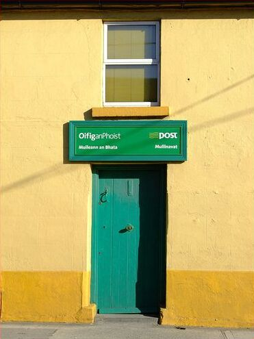 Me, with my own camera. anyone can use it! don't abuse it! Licensing This picture is the property of Joe Cashin